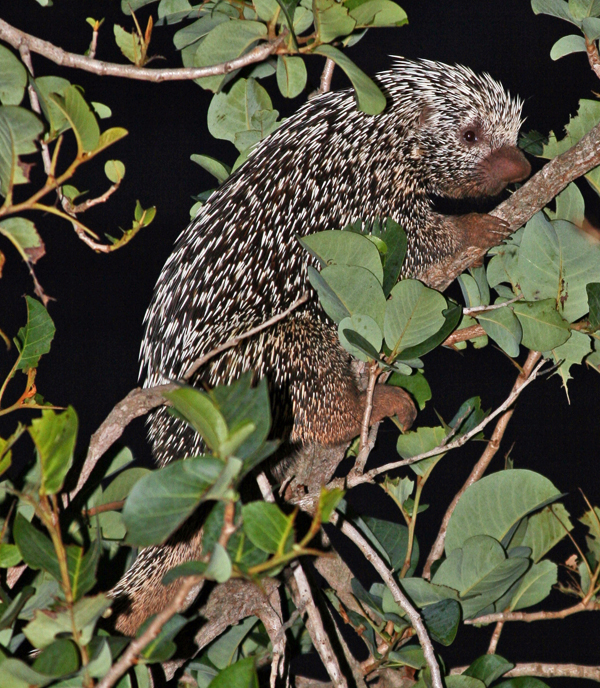 Coendou prehensilis; Brazil, Goiás, Parque Nacional das Emas.